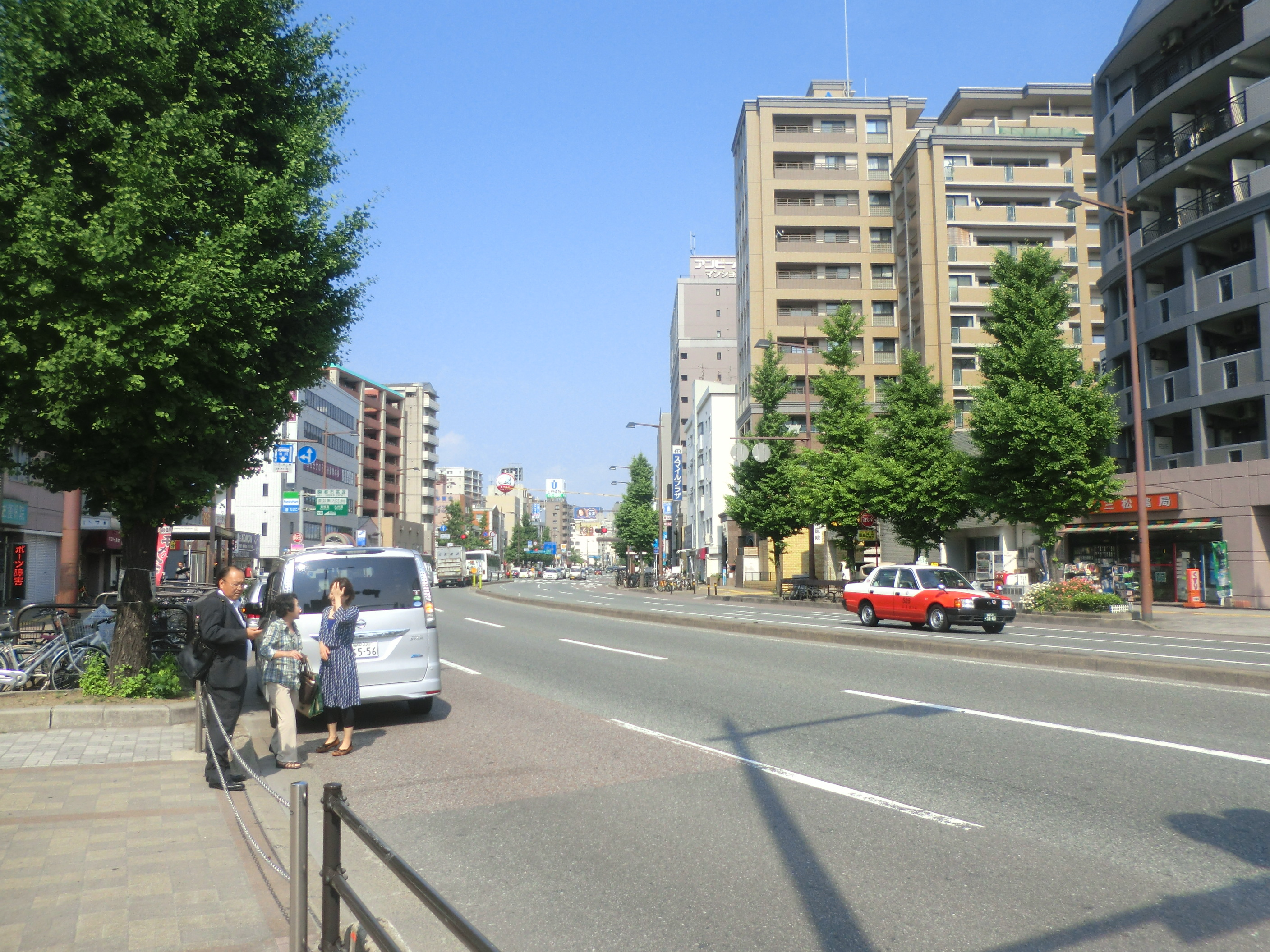 Townscape of Tojinmachi area at Chuo-ward,Fukuoka,Fukuoka,Japan.